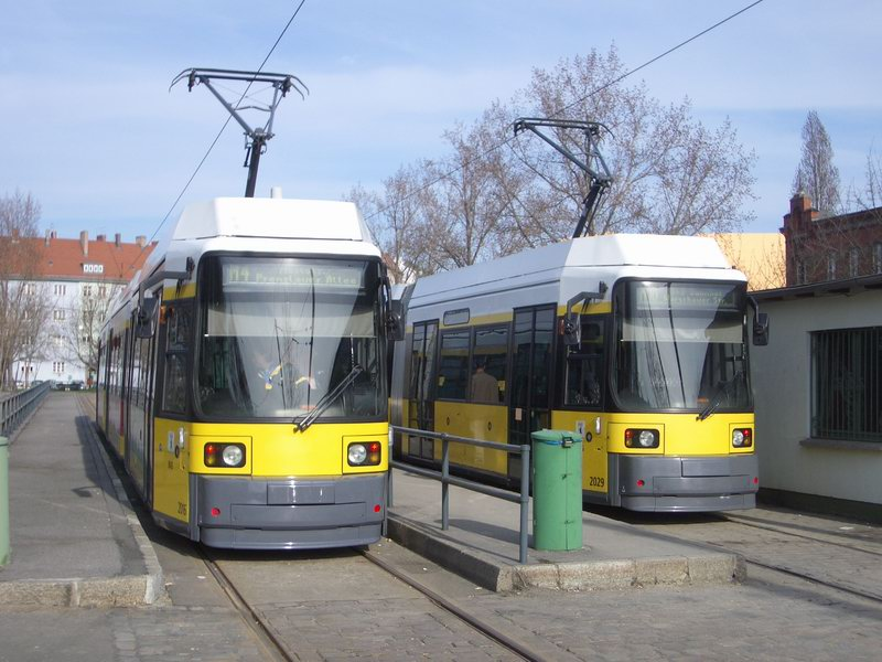 Berlin low floor trams, train type GT6N-Z